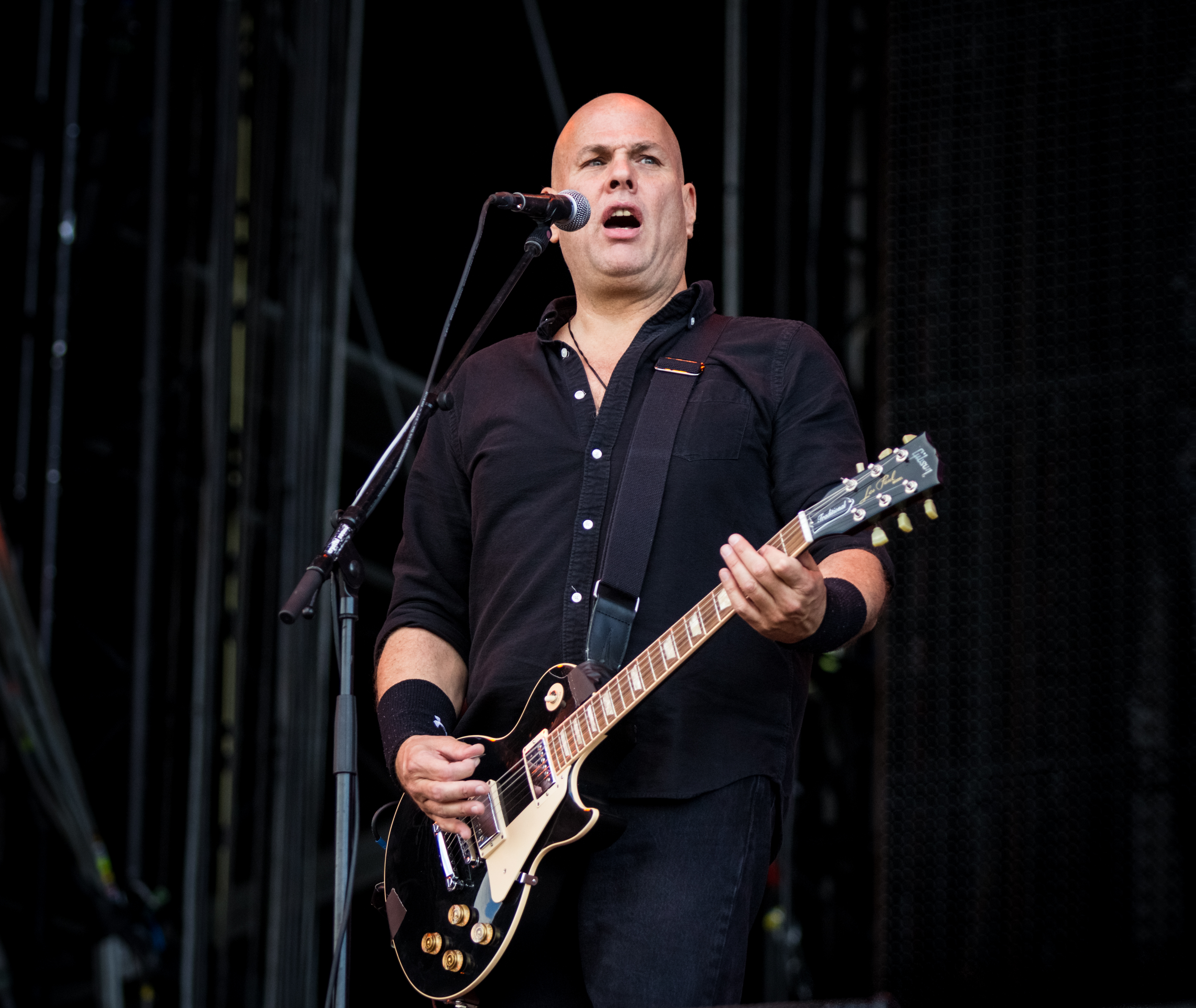 Metal Church - Wacken Open Air 2016